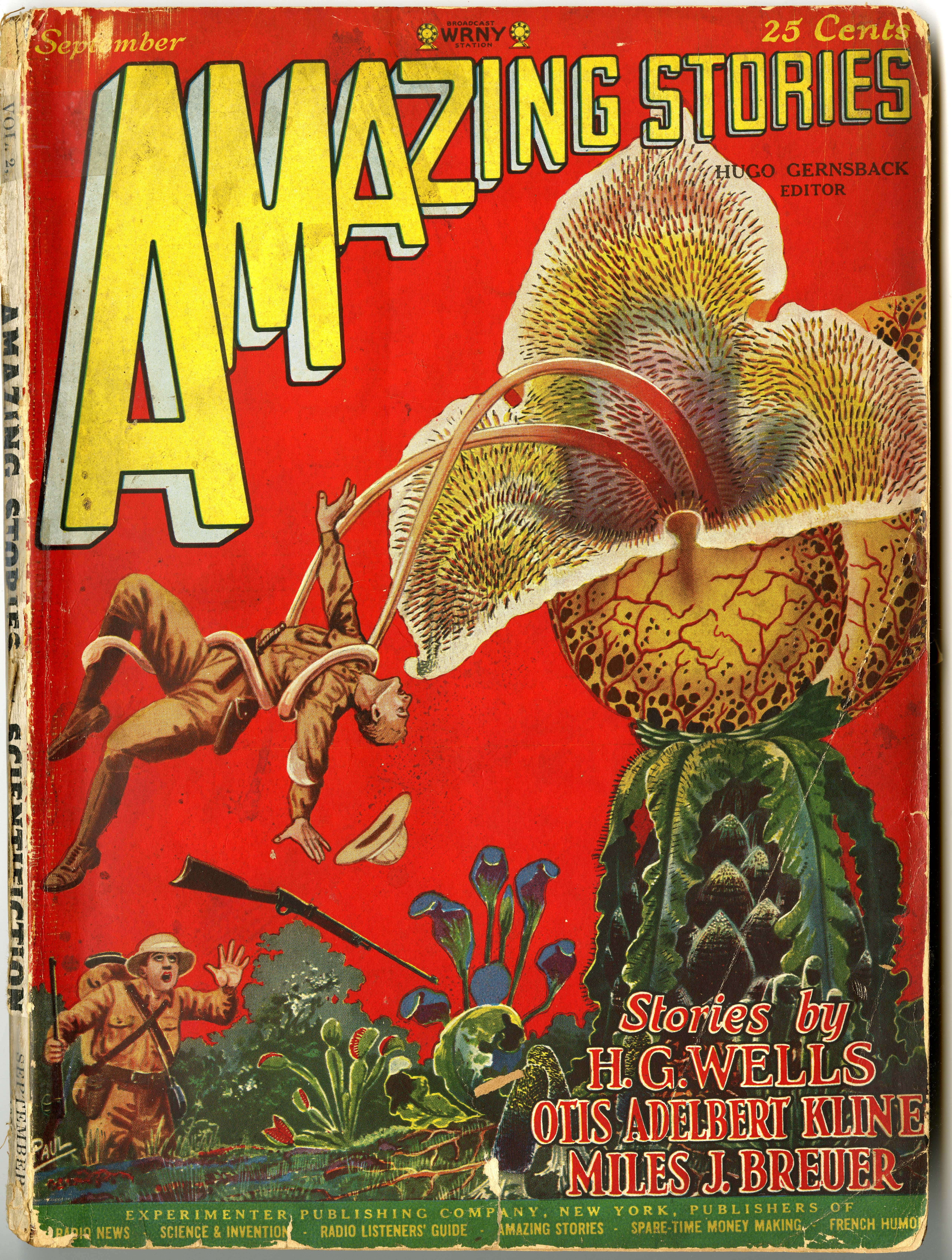 Cover to Amazing Stories, September 1927